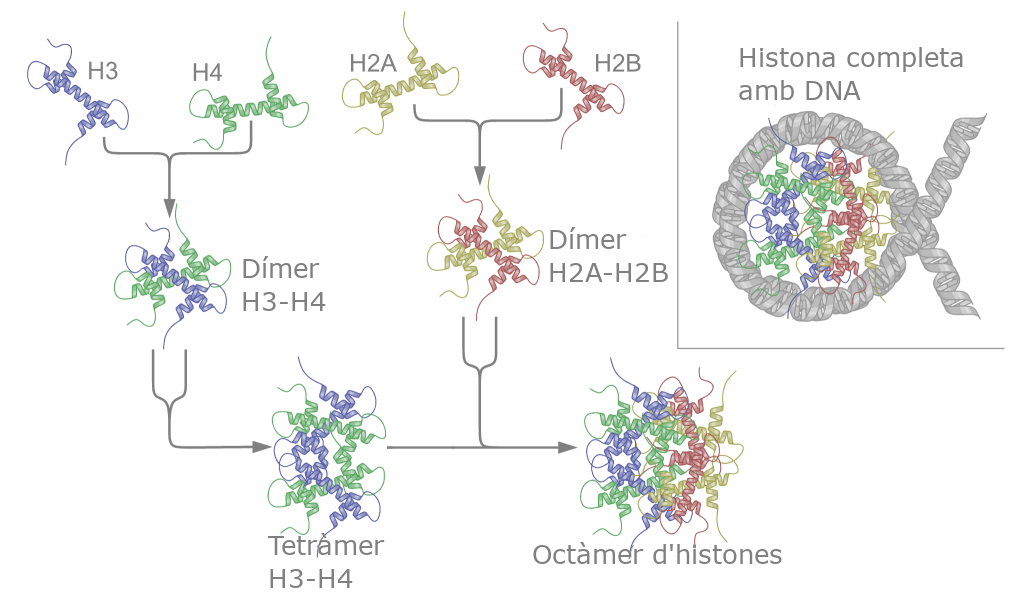 It is the Catalan translation of the original English file.